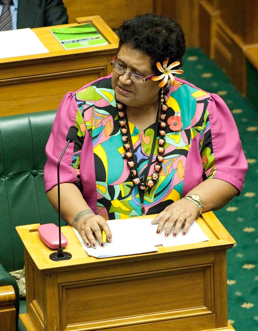 Pacific Parliamentary and Political Leaders Forum, 2013 : Debate Four, Importance of Parliaments to local communities. Participants Speak. Va'iga Tukiitonga, Niue.